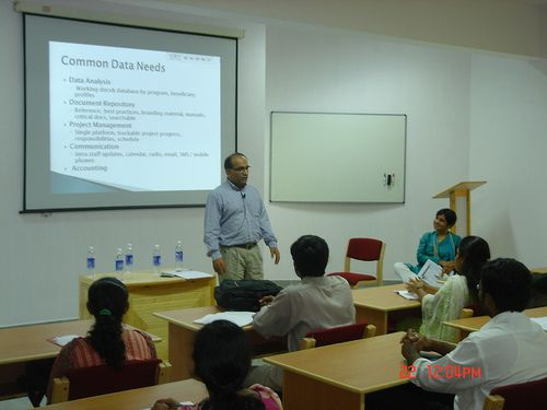 "Wikigyan Interaction with Prasad Ram of Google India at ISiM"